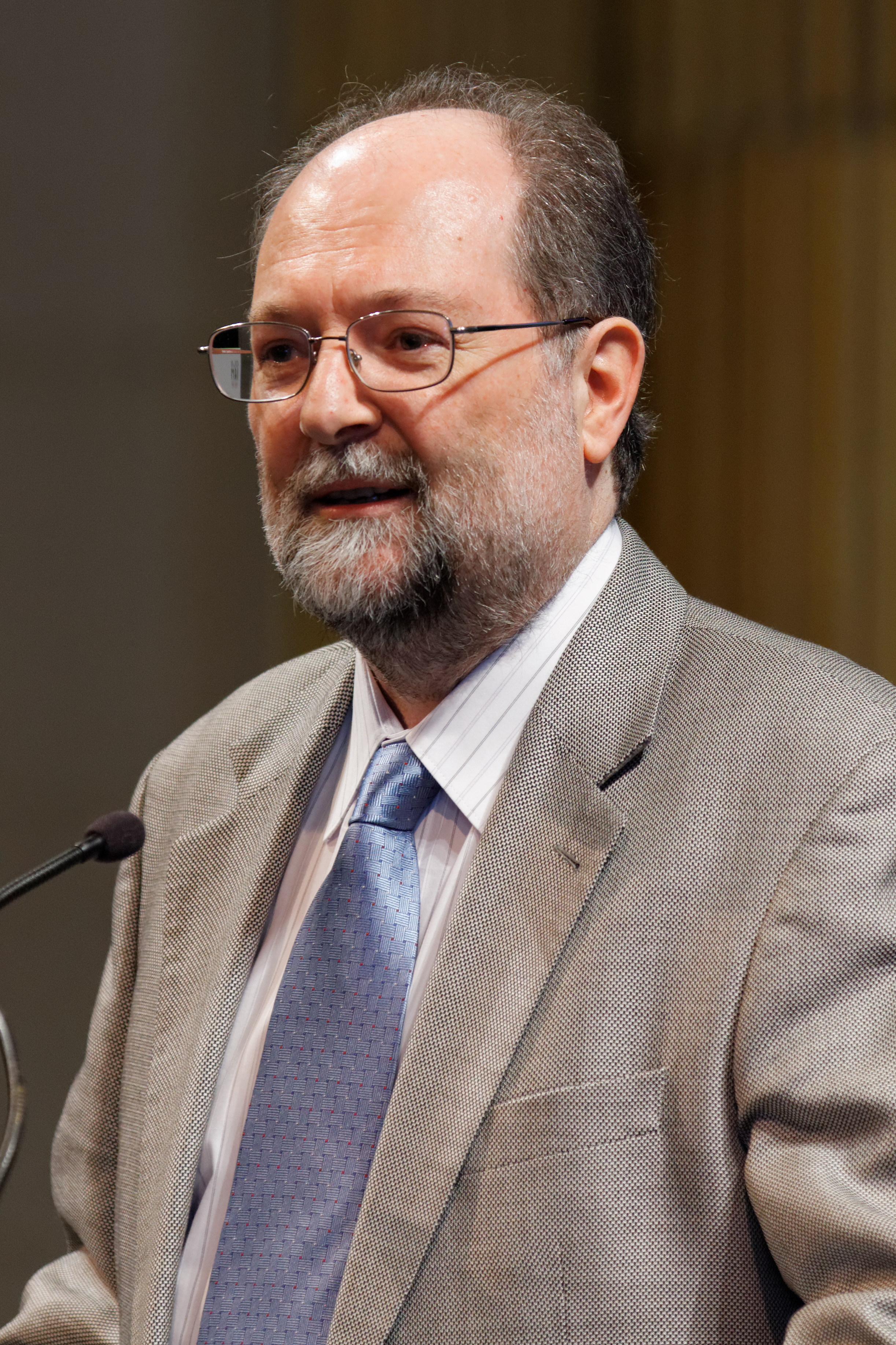 Championnats du monde de tennis de table, Paris. Conférence de presse et tirage au sort.